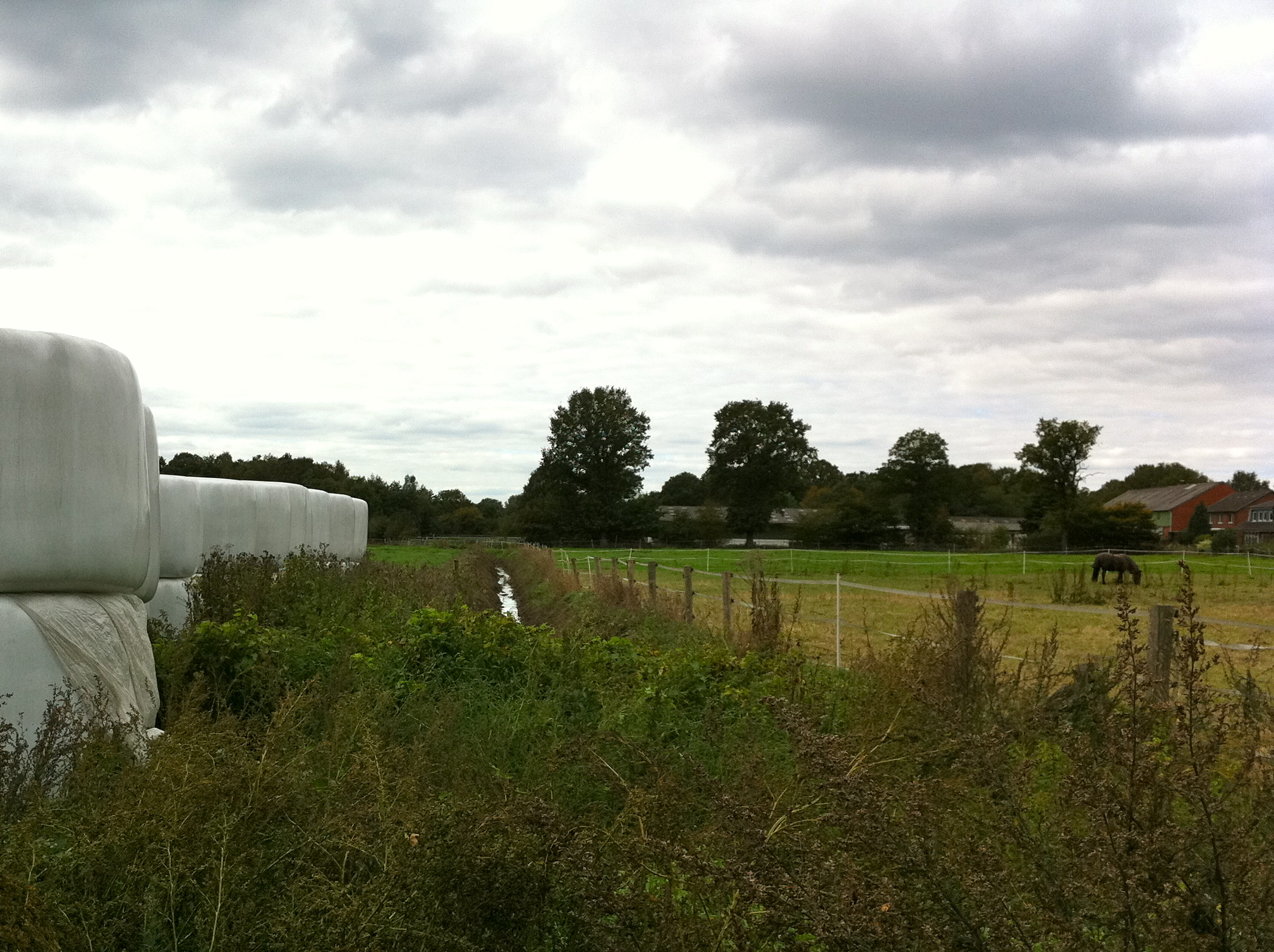 Norderstedt (Germany): The river Garstedter Graben in the town of Garstedt to the west